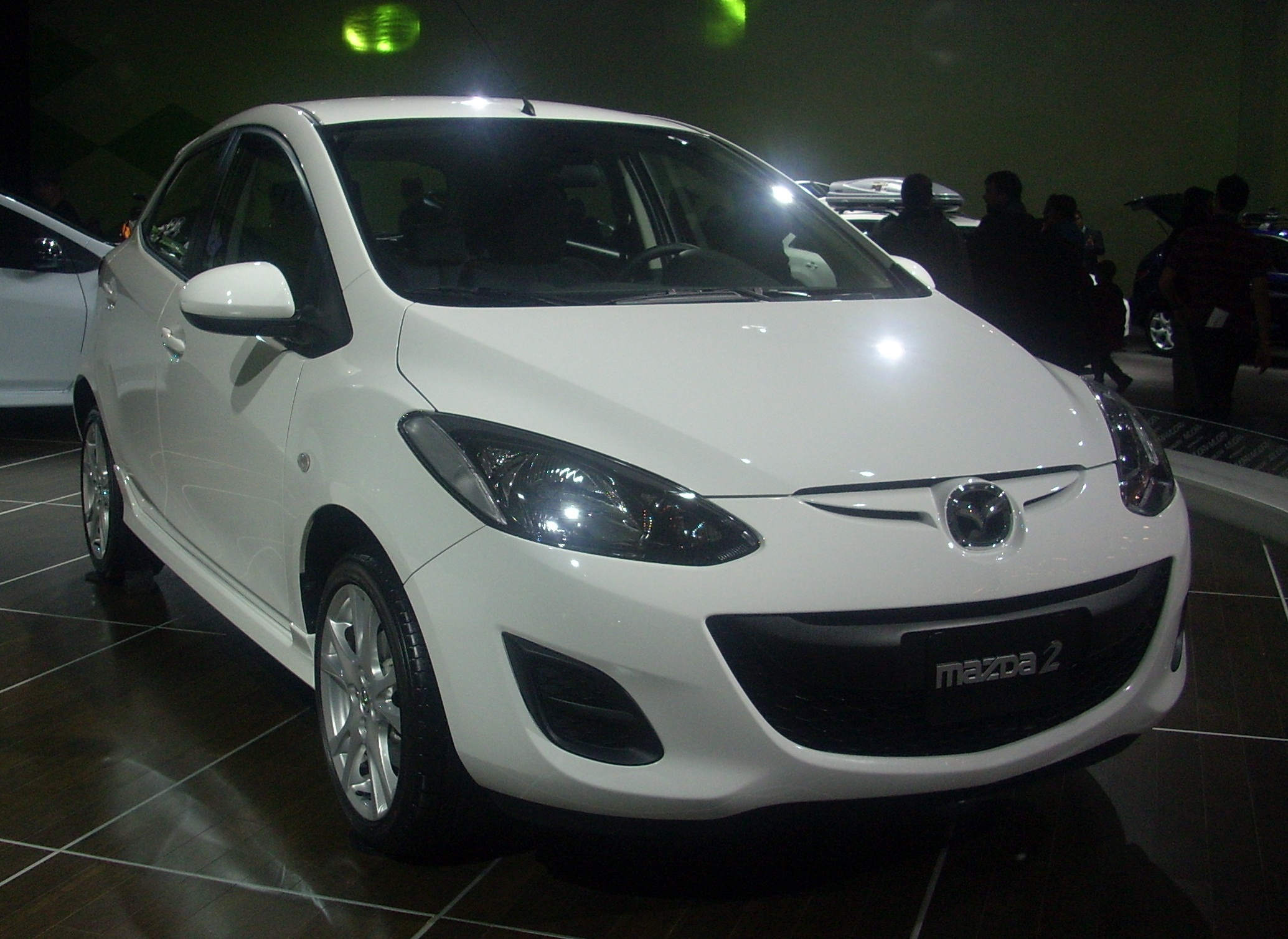 2011 Mazda2 photographed in Montreal, Quebec, Canada at the 2010 Montreal International Auto Show.